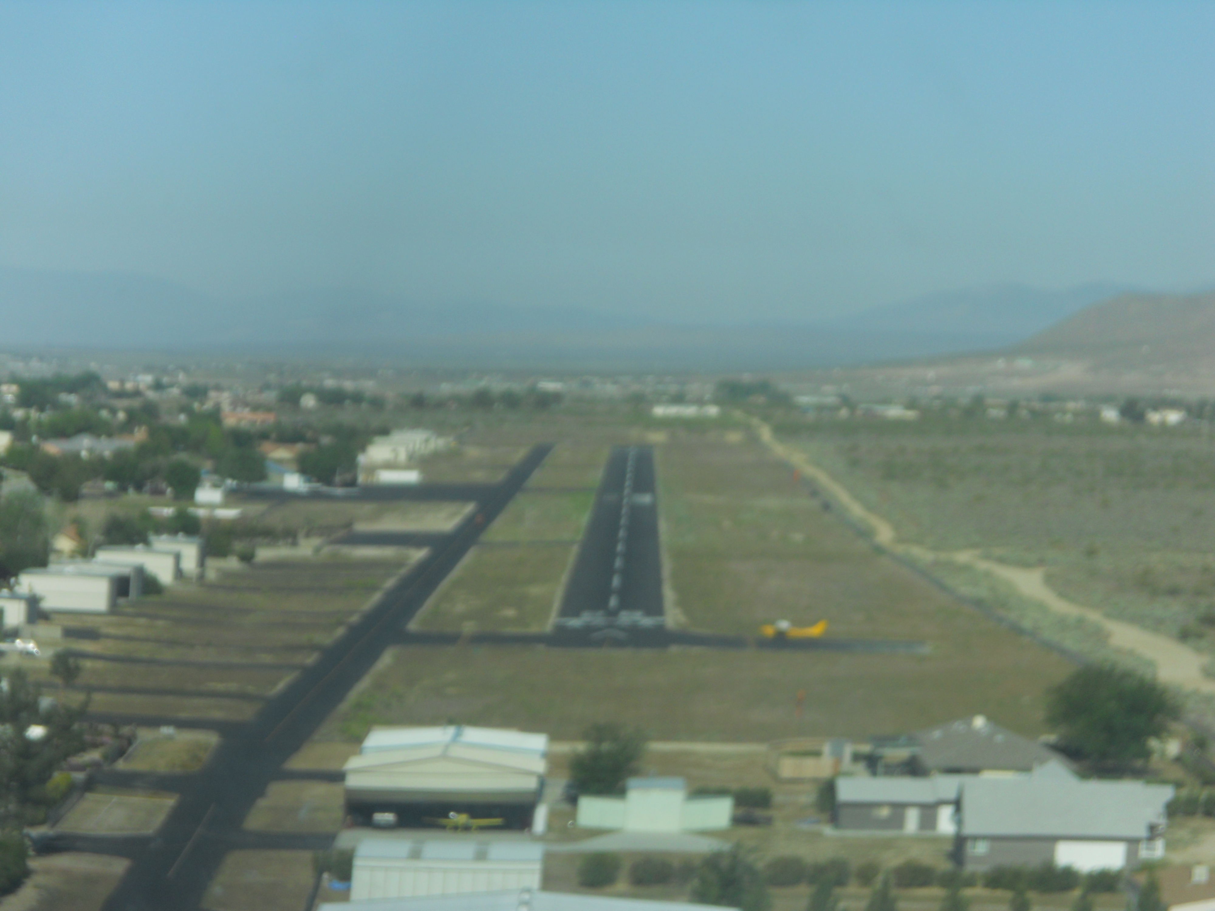 The westernly facing runway at Rosamond Skypark Airport